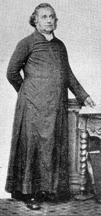 Henry Gauntlett (1805-1876)